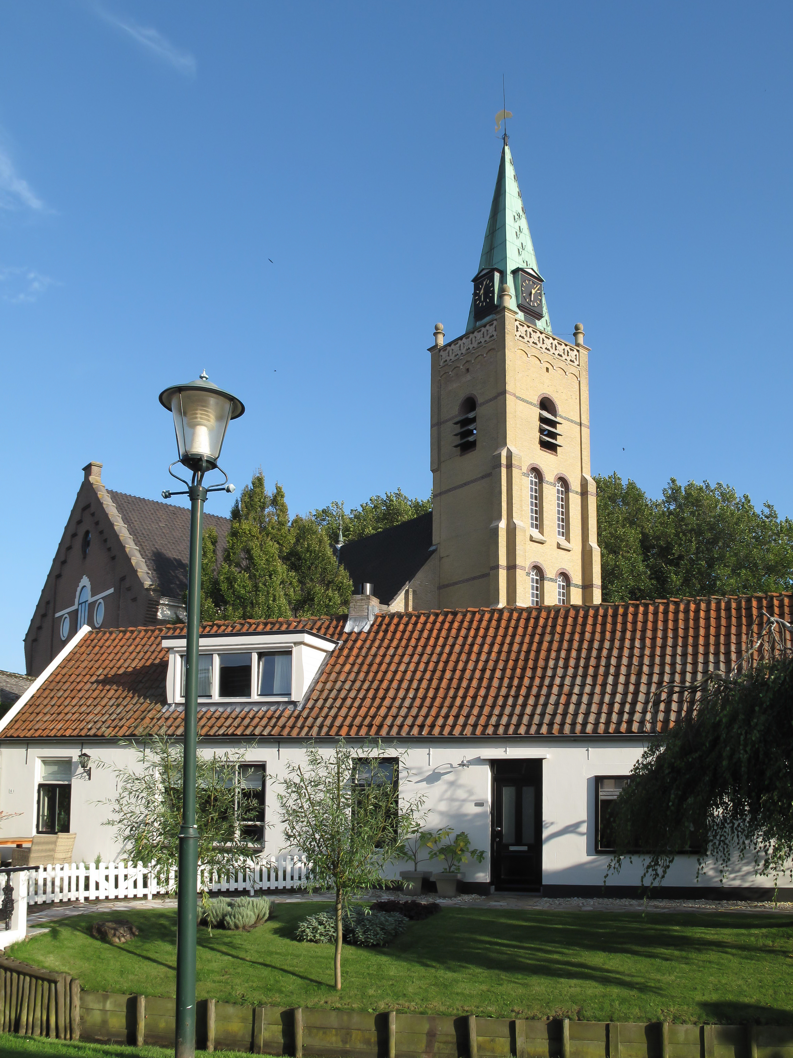 's Gravendeel, church